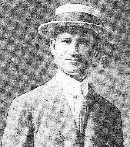 Congressional portrait of Abraham Walter Lafferty, U.S. Congressman from Oregon, served 1911-1915